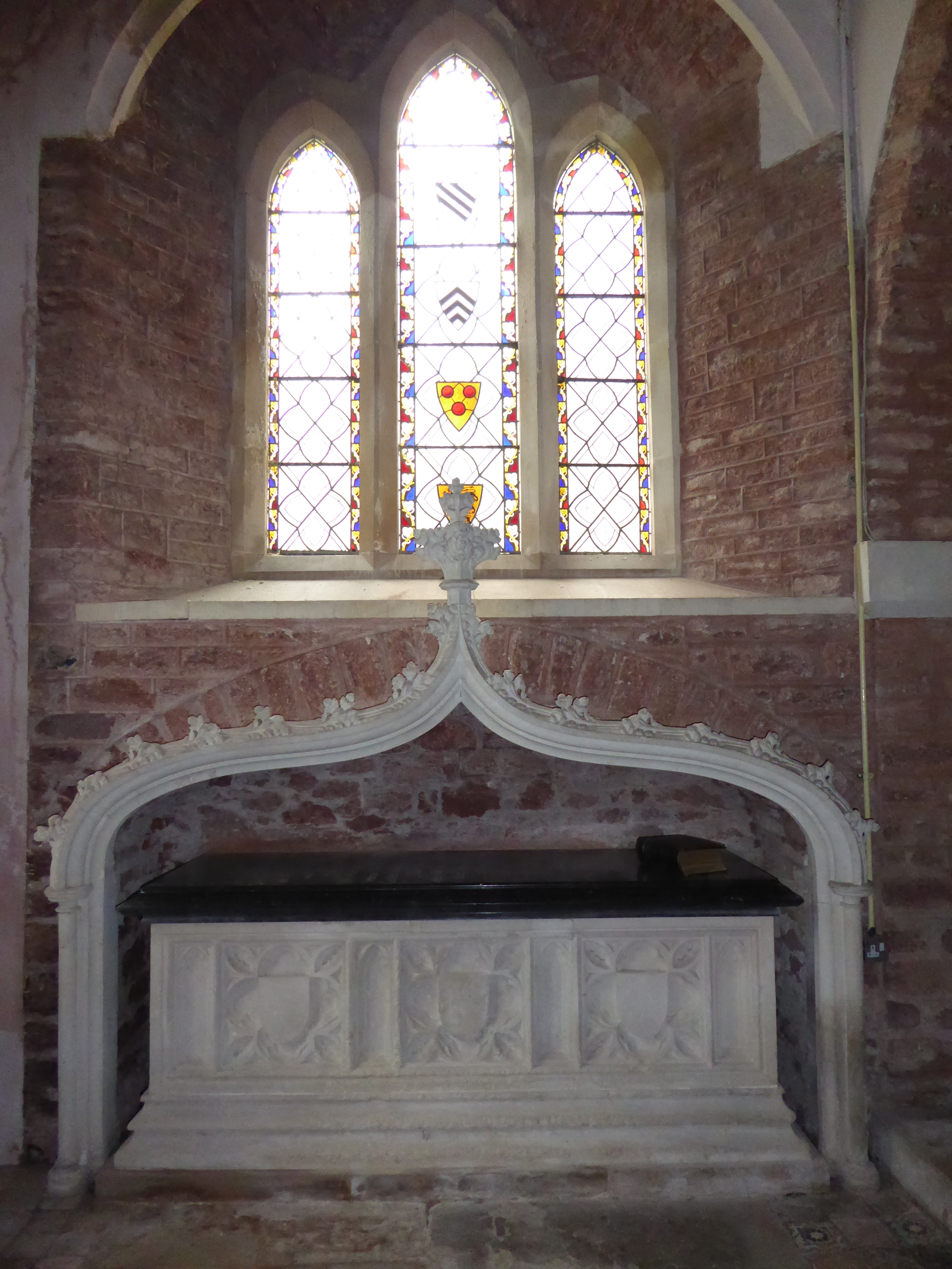 Monument to Sir Henry Carew, 7th Baronet (1779–1830) of Haccombe in Devon, east end of the north aisle, St Blaise's Church, Haccombe, consisting of a chest tomb within an Easter sepulchre-type niche, beneath a stained glass window. The top of the chest tomb is a slab of polished Purbeck marble engraved in Latin in Gothic text as follows, in imitation of mediaeval monuments: Hic jacet in crypta aborum sepultus Henricus Carew Baronettus qui obiit XXXI die Octobris anno d(omi)ni MDCCCXXX (a)etatis su(a)e LI. Hic etiam cum marito jacet Domina Elizabetha Carew Gualteri Palk de Marley armigeri filia haeresque quae obiit VII die Martis (sic) anno d(omi)ni MDCCCLXII aetatis suae LXXVI Which may be translated as: "Here lies buried in the crypt ..... Henry Carew, Baronet, who died on the 31st day of October in the year of our Lord 1830 (in the year) of his age 51. Here also with her husband lies Lady Elizabeth Carew, daughter and heiress of Walter Palk of Marley, Esquire, who died on the 7th day of March in the year of our Lord 1862 (in the year) of her age 76". Above is a three-light lancet window, the middle one displaying the arms of his ancestors who all held Haccombe successively, namely (from top to bottom) de Haccombe, Archdeckne, Courtenay and Carew.